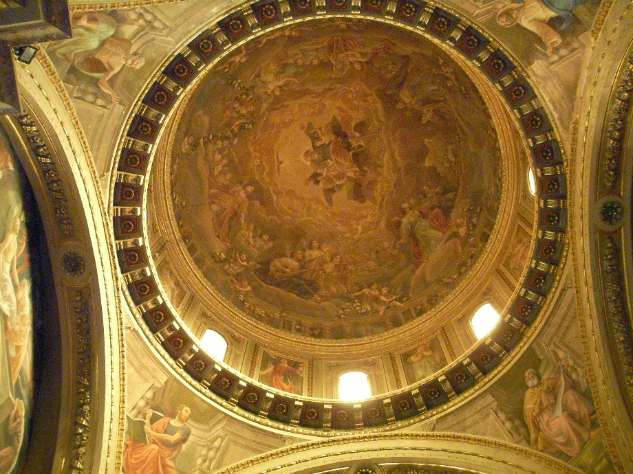 The ceiling of the dome of the chapel of the Holy Sacrament in the Cathedral of Forlì